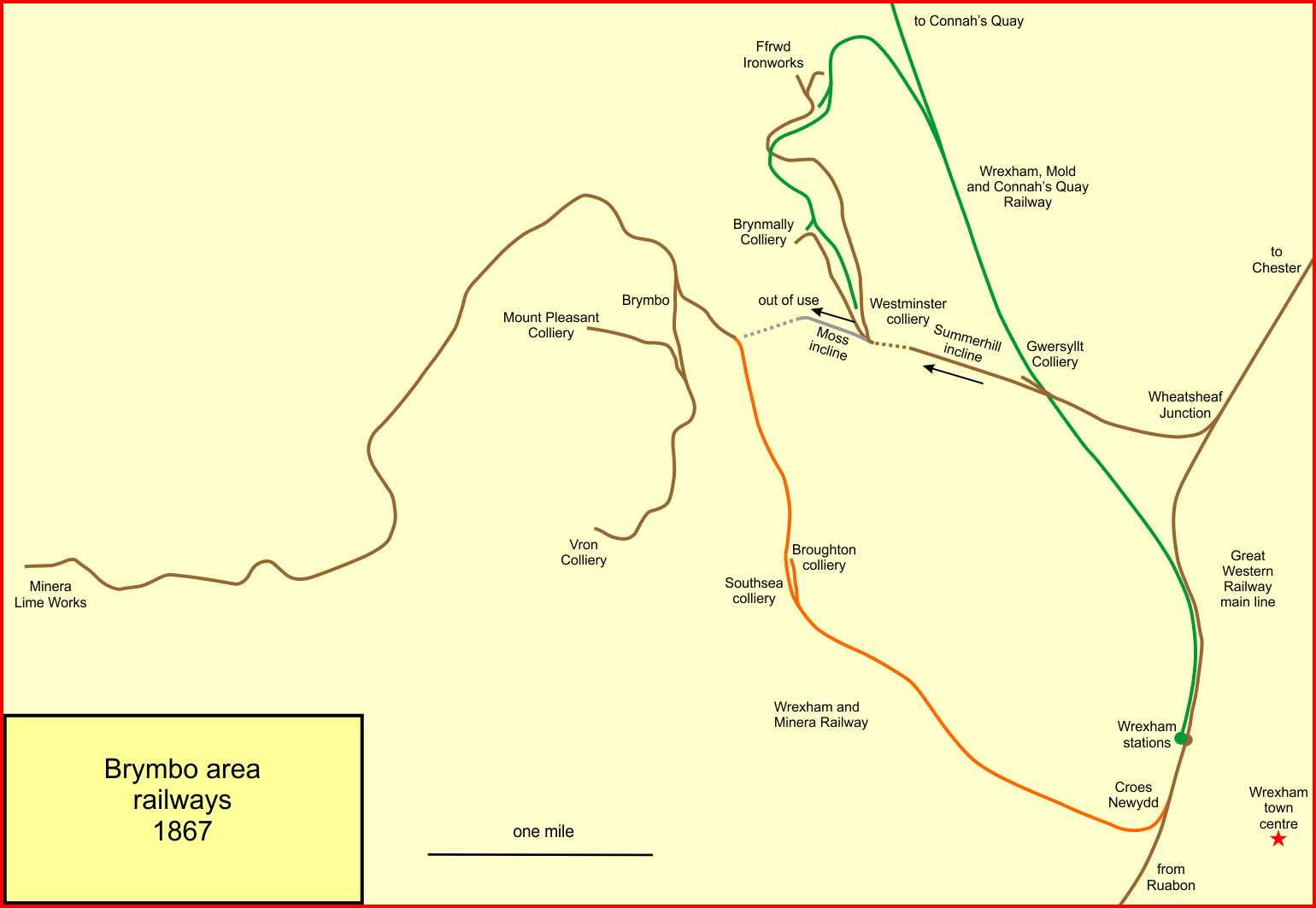 System map of the Railway lines around Brymbo, Wales, in 1867